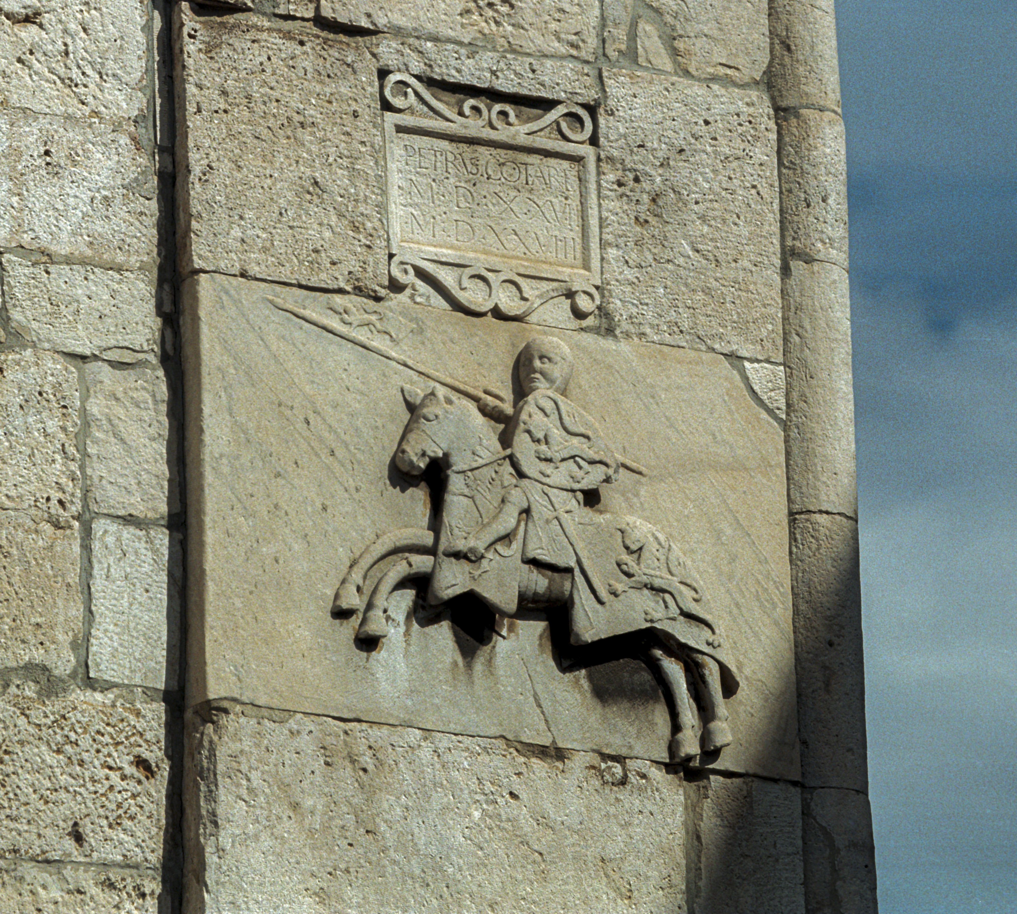 On the City Hall, Pula, Croatia, Pula, Croatia